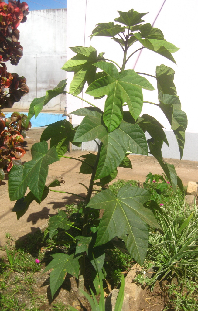 Interspecific hybrid Jatropha curcas x integerrima 111 days after sowing. #1